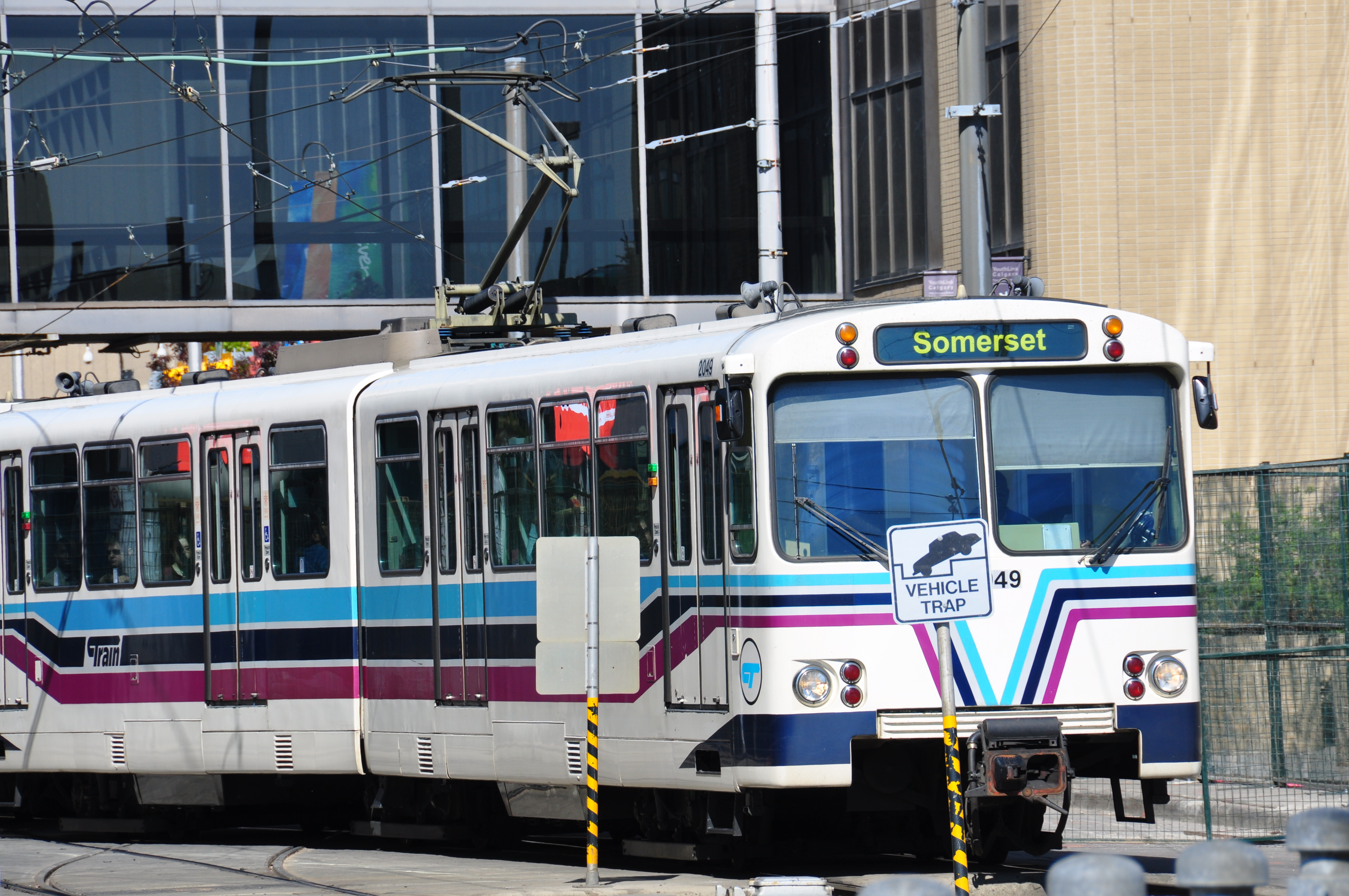 Calgary - C-Train